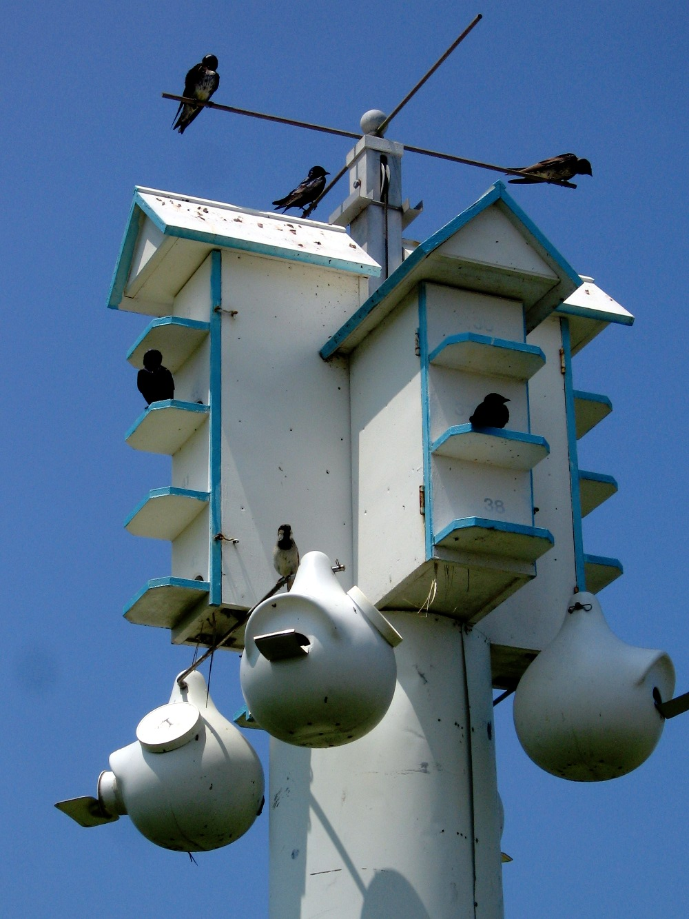 Nestboxes for Purple Martins in Cape May Point, New Jersey, USA. Several Purple Martins and one House Sparrow are peching on the nestboxes.